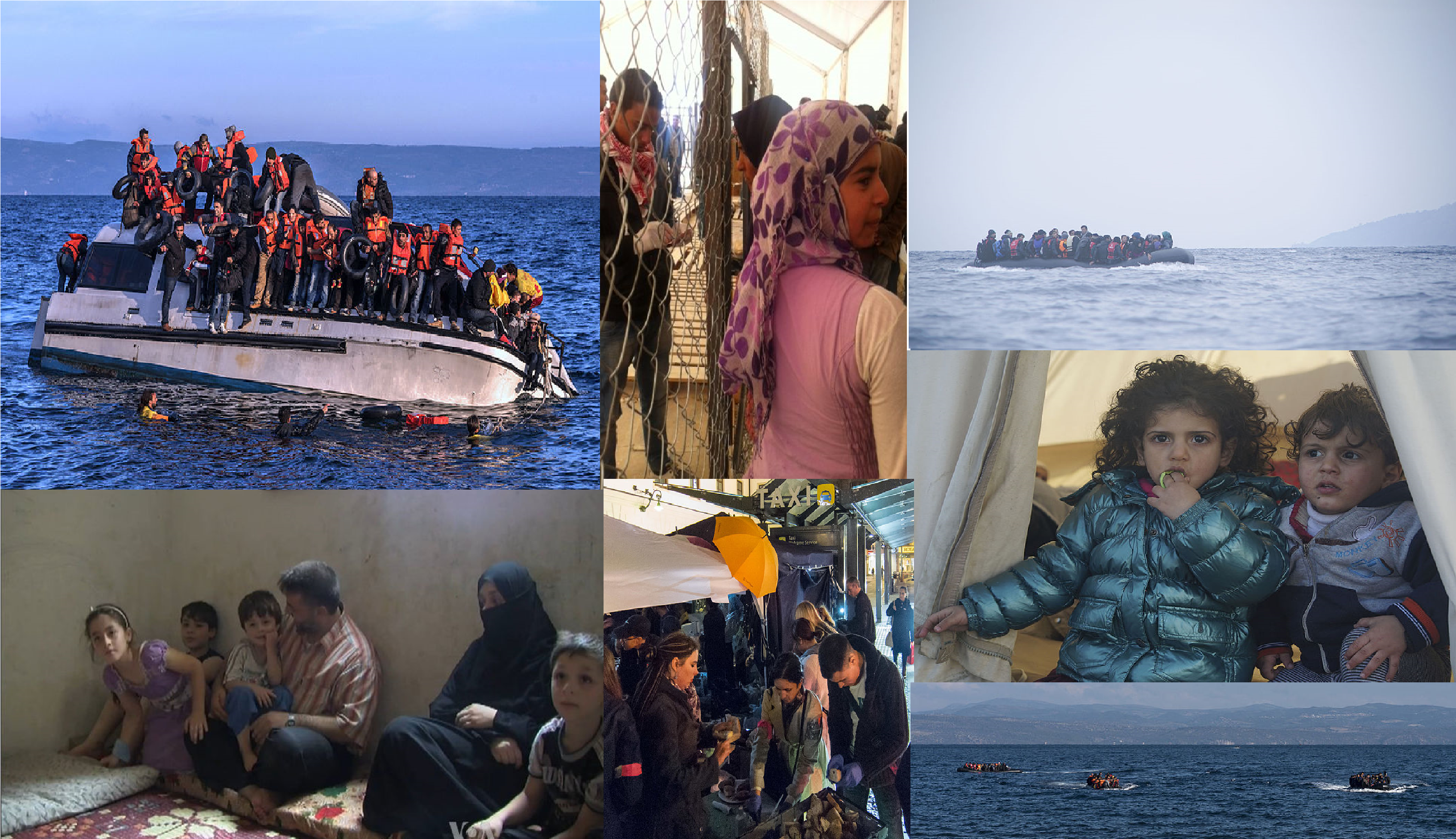 Syrian refugees around the world